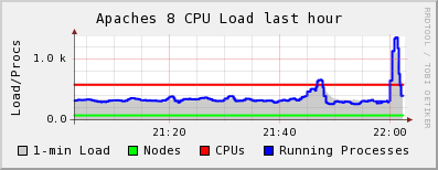 Wikimedia load spike on June 25, 2009, following news of Michael Jackson's death